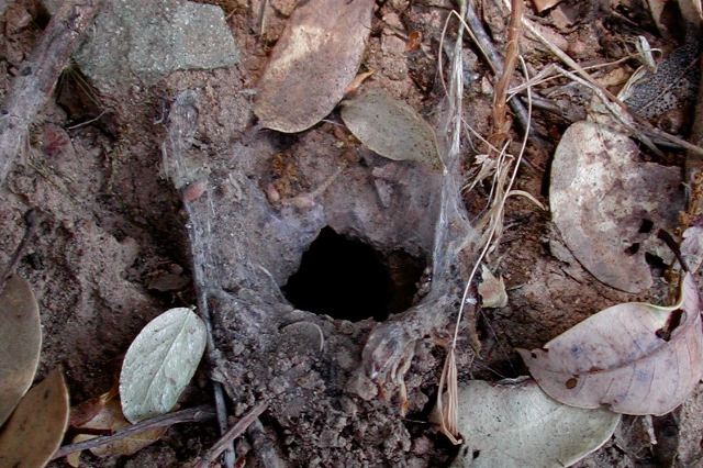 Calisoga sp. burrow entrance in northern California.